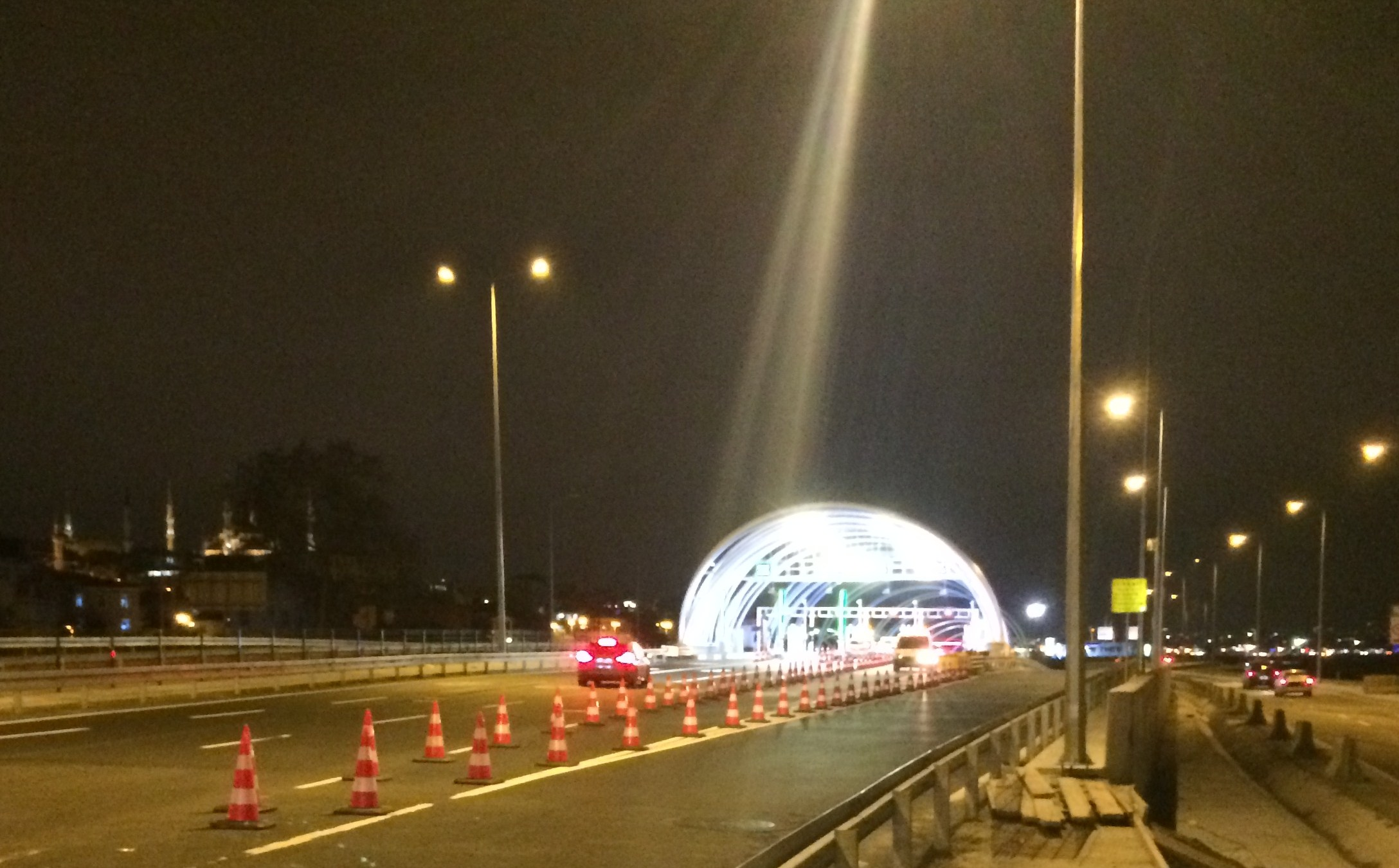 Entrance to Eurasia Tunnel on Kumkapı side